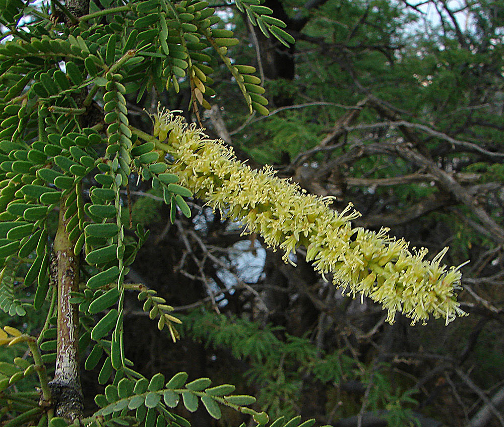 A coastal species native from Colombia to Peru and known there as Huarango. Planted and invasive abroad, but threatened in its home range. Photo from Hawaii In context at